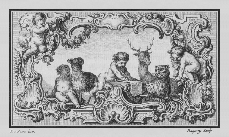 Discours sur la Nature des Animaux - Essay on the Nature of Animals Image from the French book: Illustrations de Histoire naturelle générale et particulière avec la Description du Cabinet du Roy Tome IV (Volume 4), Page de Garde (Page 3) - Publisher: Imprimerie royale, Paris (retouched version: removed spots; restored historic black framing; cropping to mod-8 sizes)